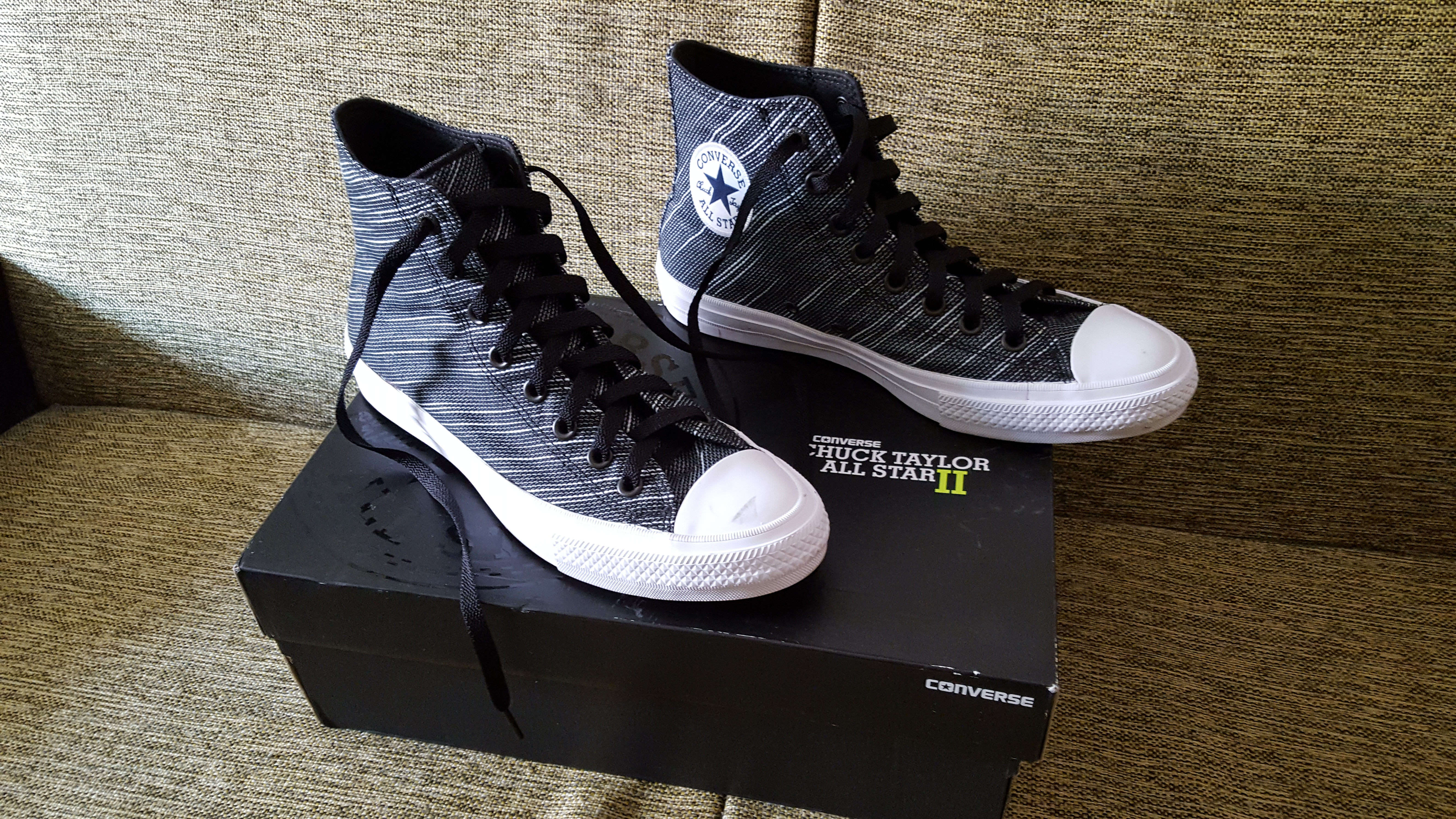 Converse Chuck II Knit black, with black laces.